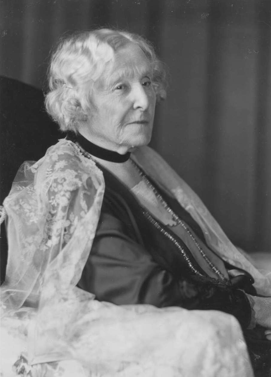 Jane Barton in old age